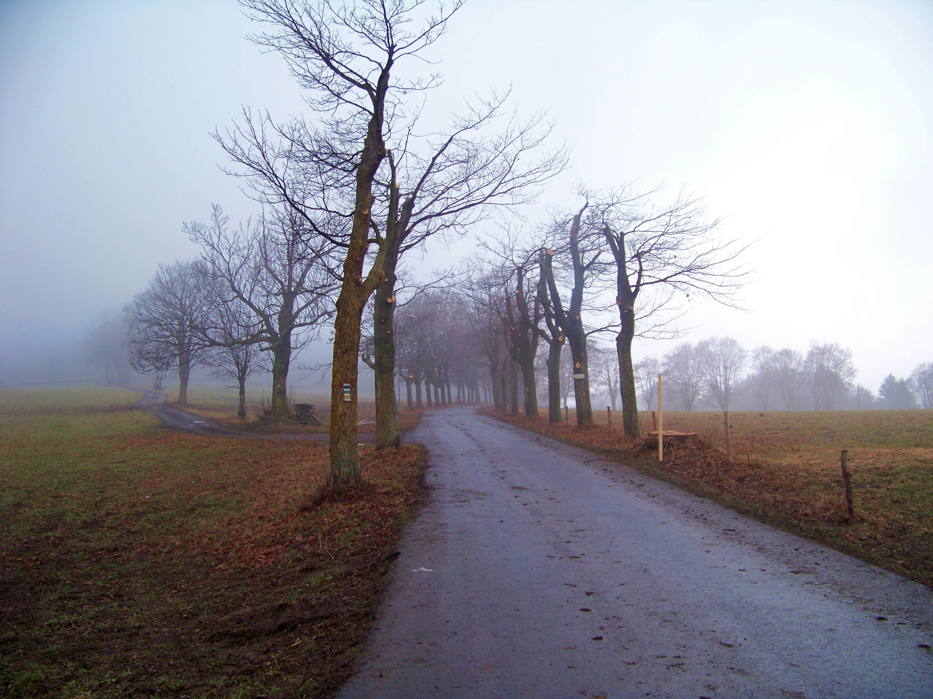 Kořenov-Příchovice, Jablonec nad Nisou District, Liberec Region, the Czech Republic. A road to Desná.